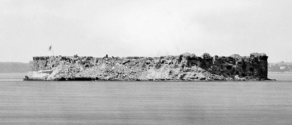 Charleston, South Carolina. View of Fort Sumter from the sand bar